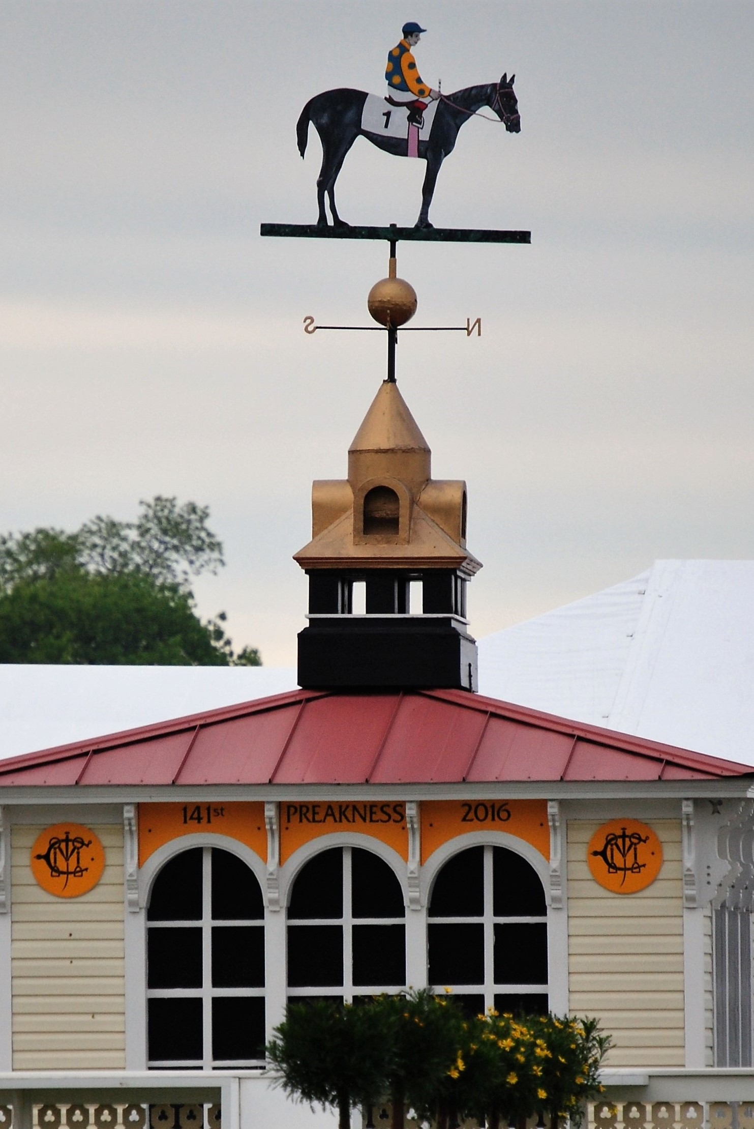 The weather vane at Pimlico is repainted each year with the colors of the Preakness winner